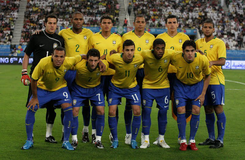 Brazil national Team